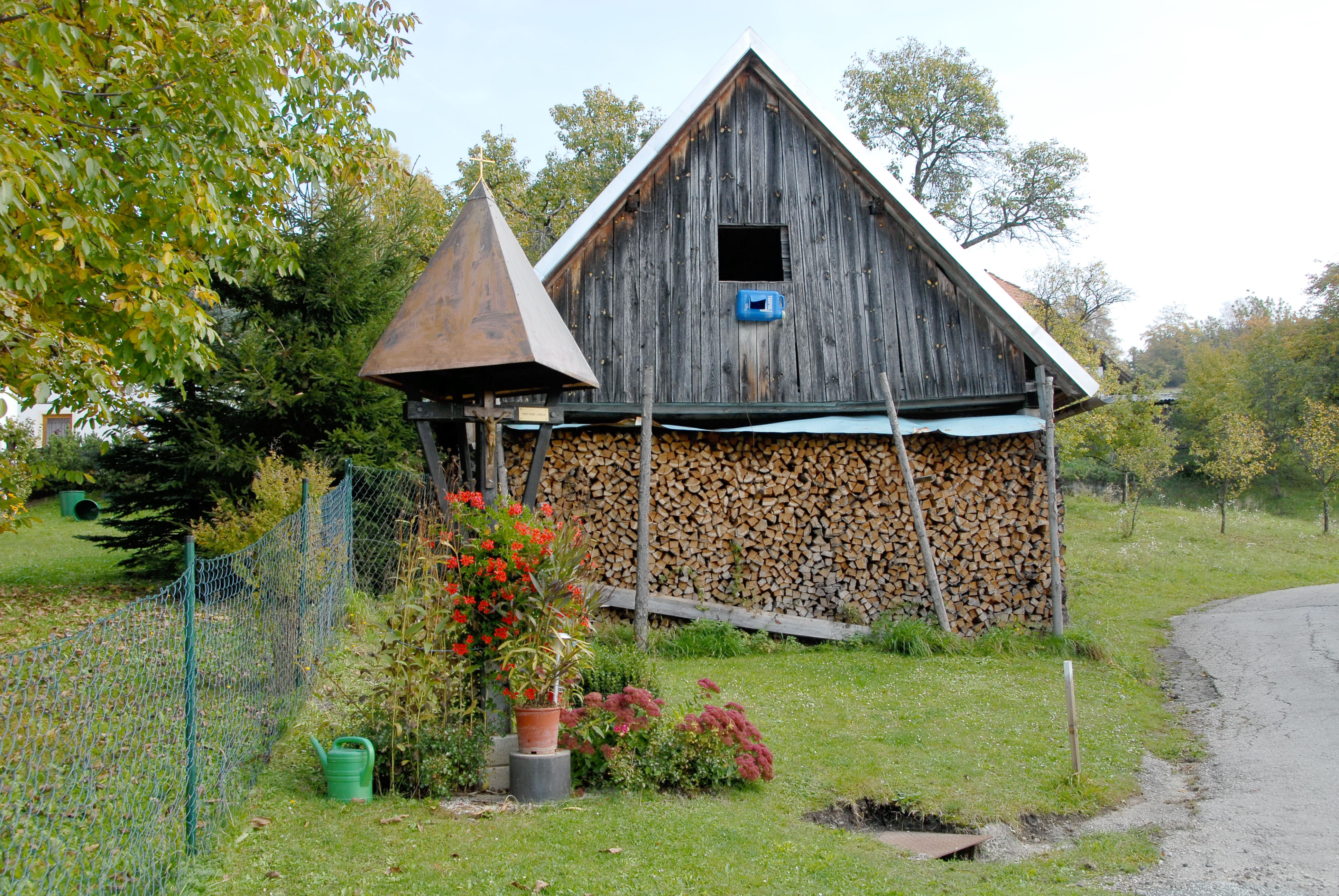 Wayside shrine “Prettner-Kreuz” at Strantschitschach in the community Maria Rain, district Klagenfurt Land, Carinthia, Austria